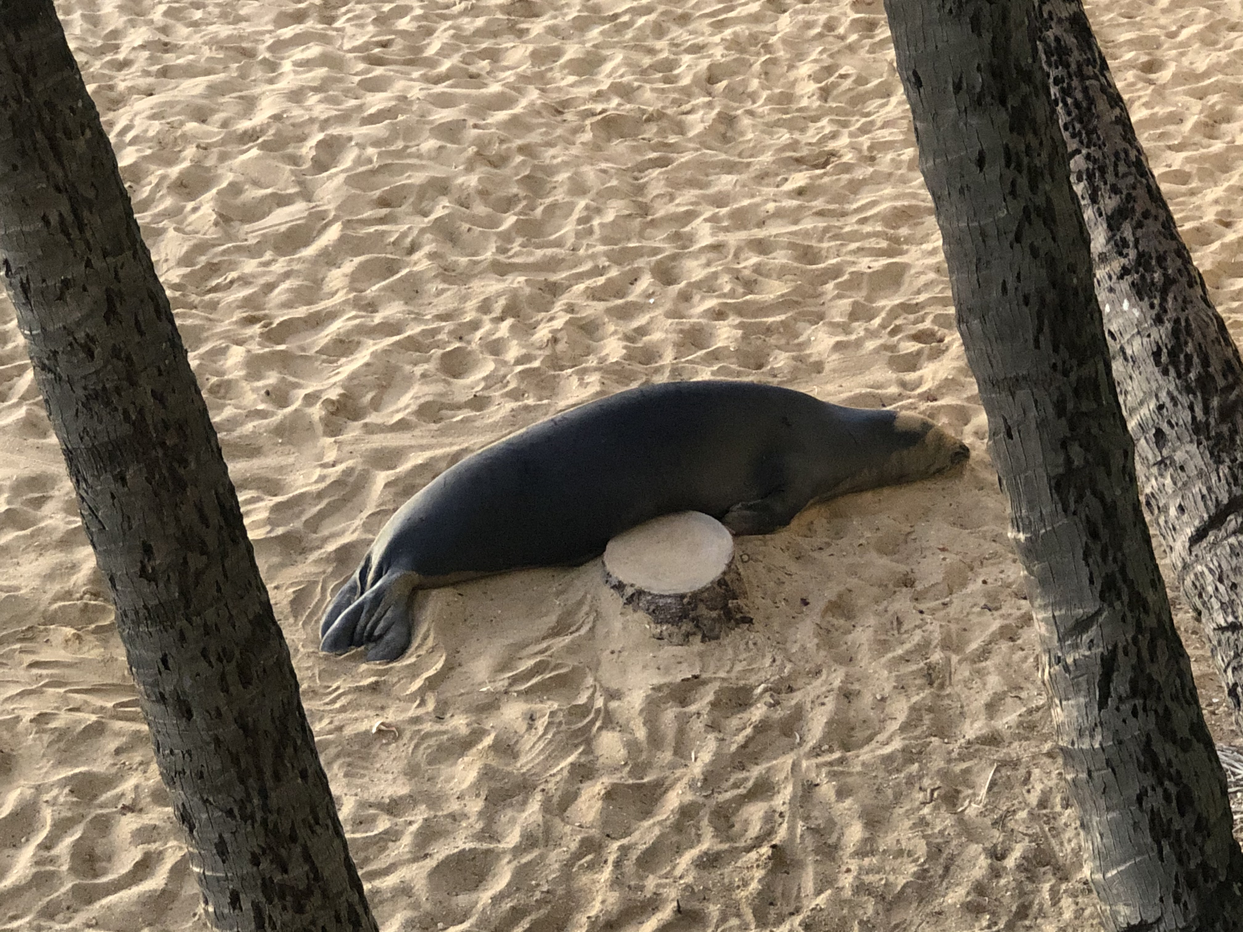 Hawaiian Monk Seal returns to Kaimana beach on November 3, 2019 after leaving the day before. Decides that a tree stump is something comfortable to sleep against. The tourists staying at the New Otani are loving it although they are having to share the beach.